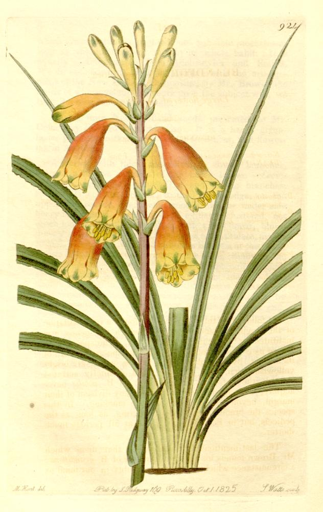 Illustration of Blandfordia grandiflora